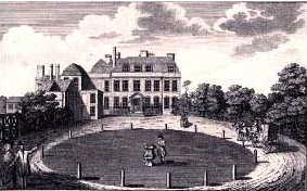 Bagshot Park Lodge, home to Vice Admiral Augustus Keppel, demolished in 1878